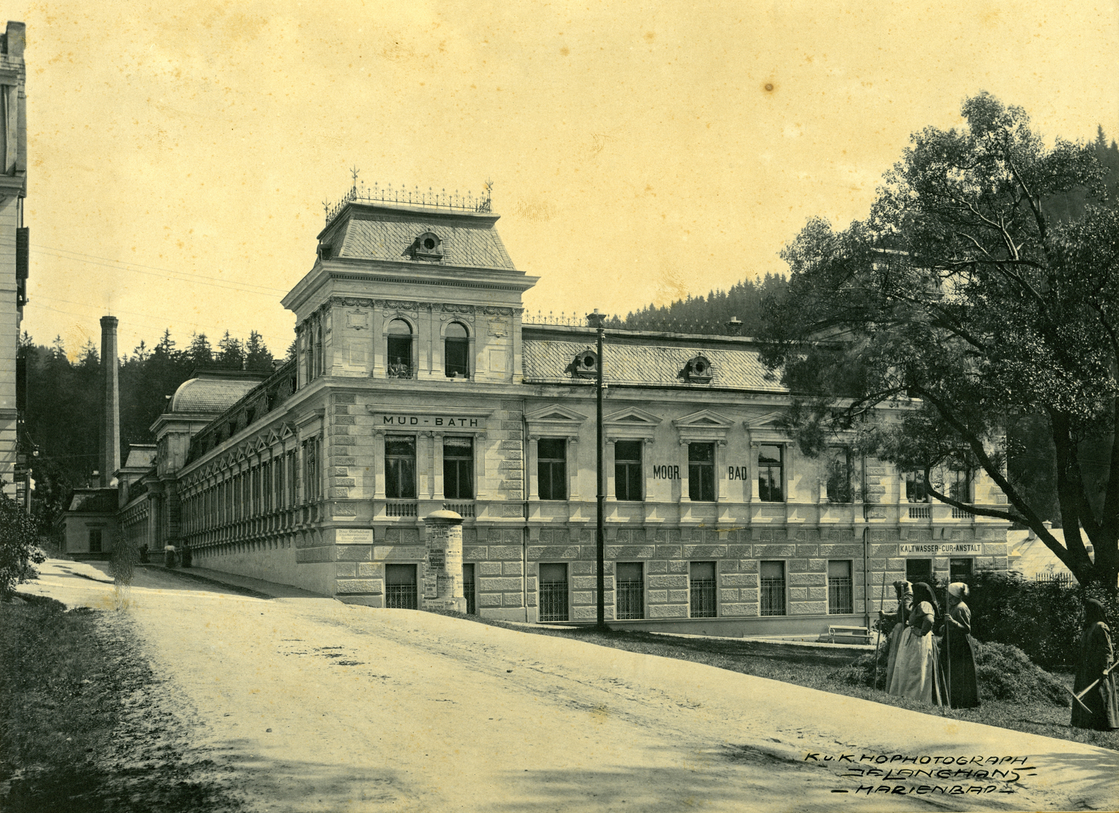 There is a buildind of Maria Spa, where in 19th century were given the peatwraps.